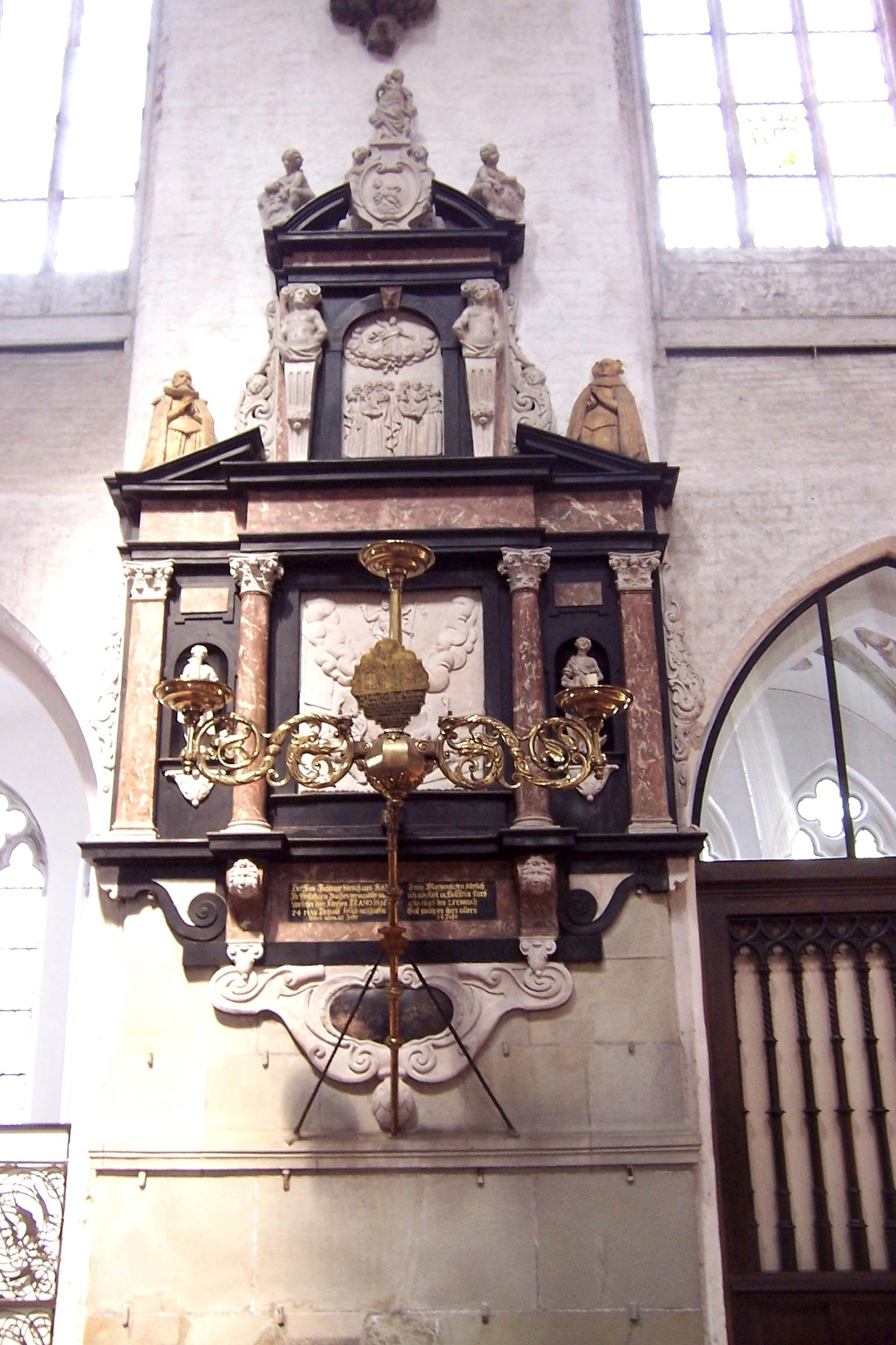 Füchting epitaph in St.Mary's Church, Lübeck, sculptured by Aris Claeszon.